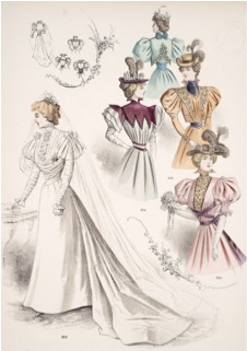 Flared Skirts. Jacket Bodices.